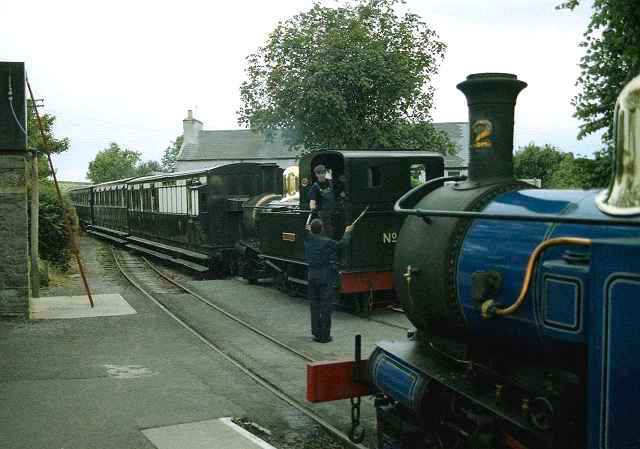 Trains cross at Ballasalla on the Isle of Man